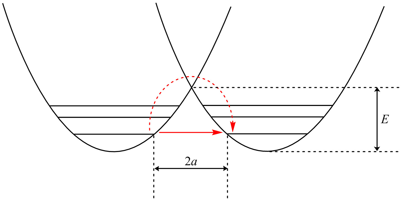 Diagram of a energy well for a proton tunneling reaction.